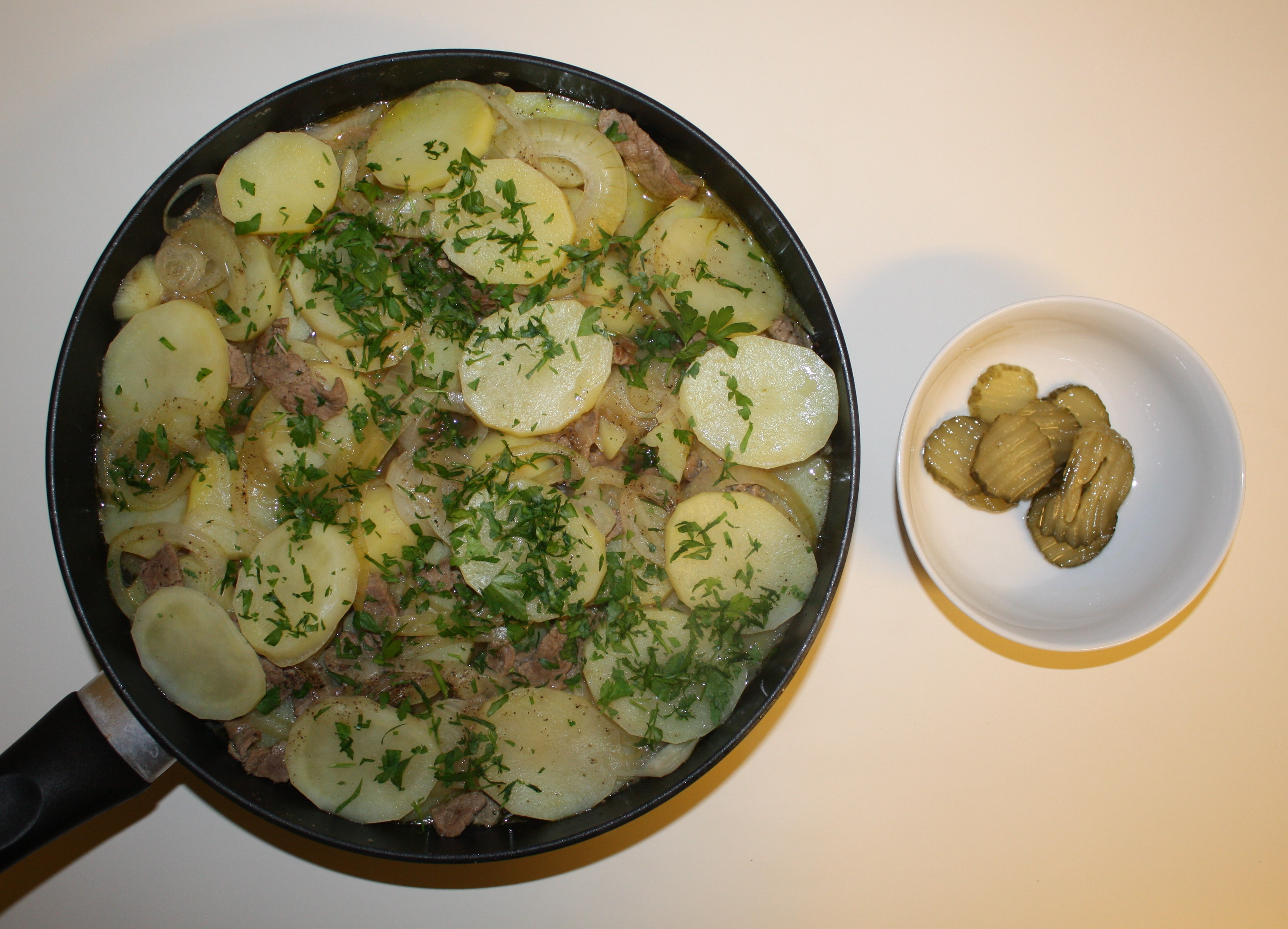 beef stew with onions and potatoes